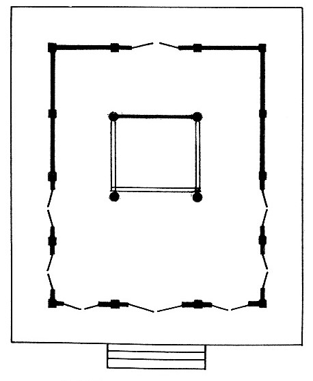 Layout of Fuji-ji Temple in Oita Prefecture Japan